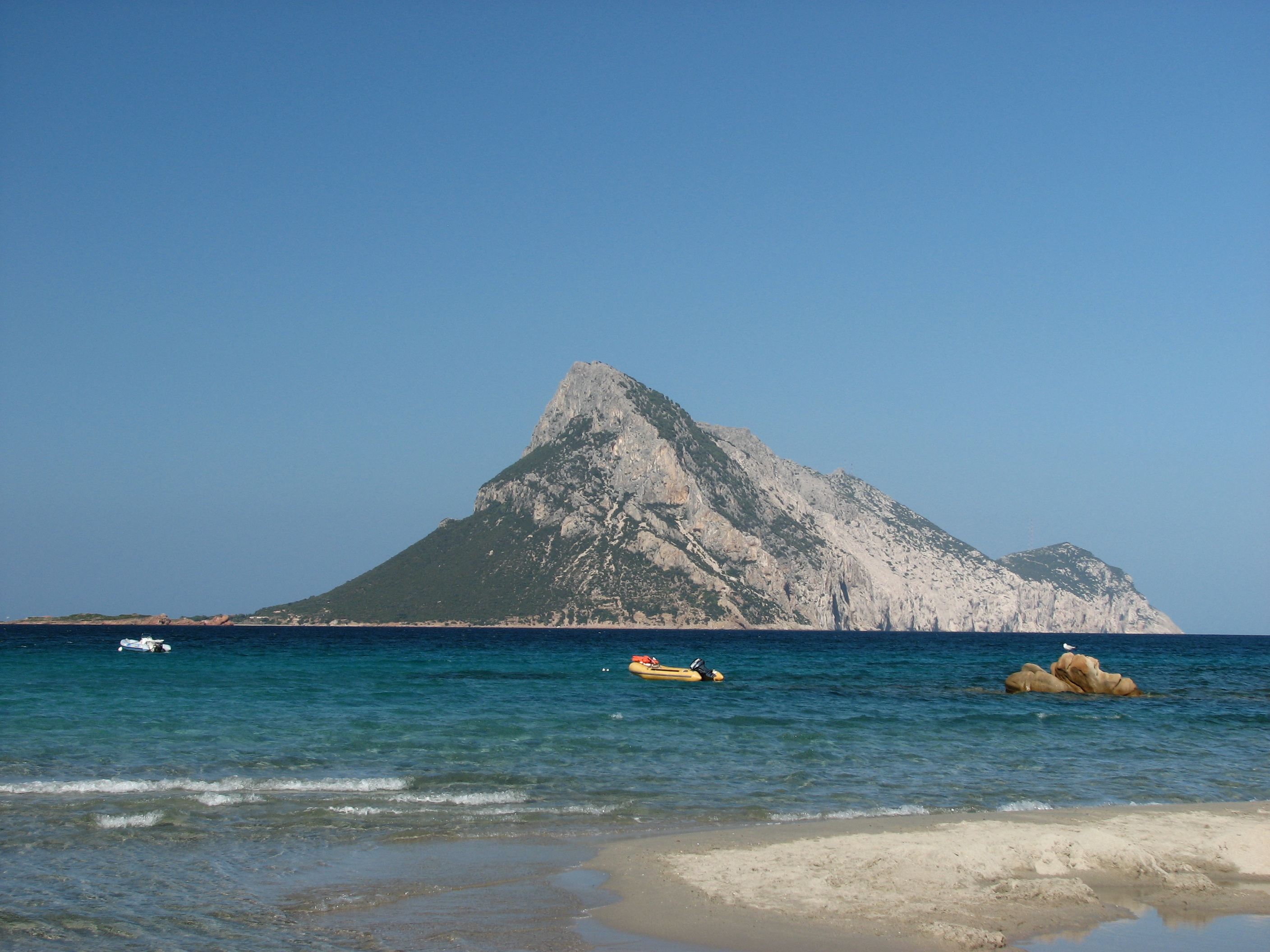 Tavolara Island seen from West